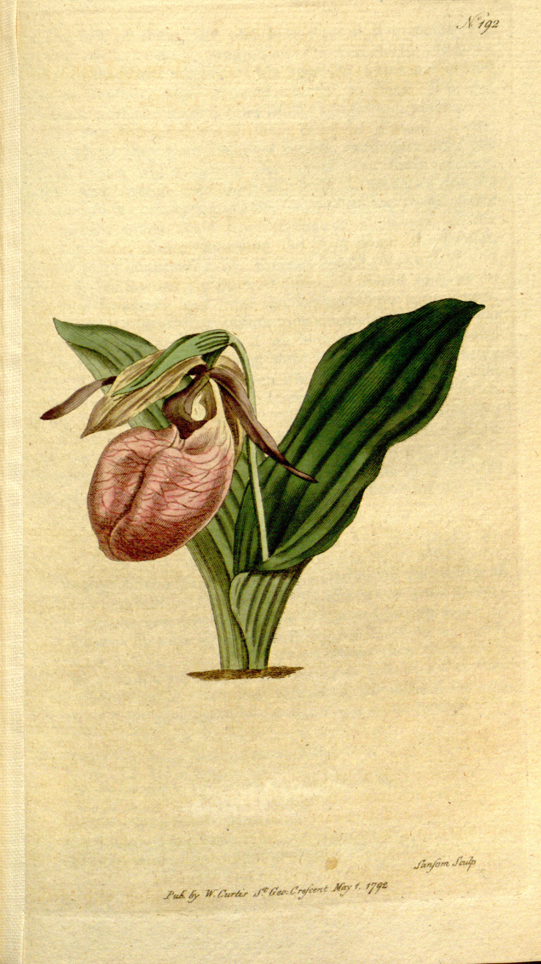 Cropped plate of Cypripedium acaule. Two-Leaved Lady's Slipper, Moccasin Flower, or Pink Lady's Slipper. Plate No 192, appearing in Volume 6 of Curtis's Botanical Magazine.